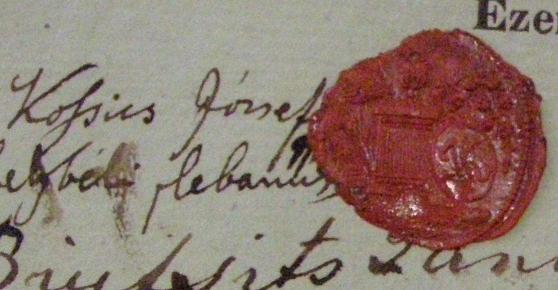 Seal of József Kossics